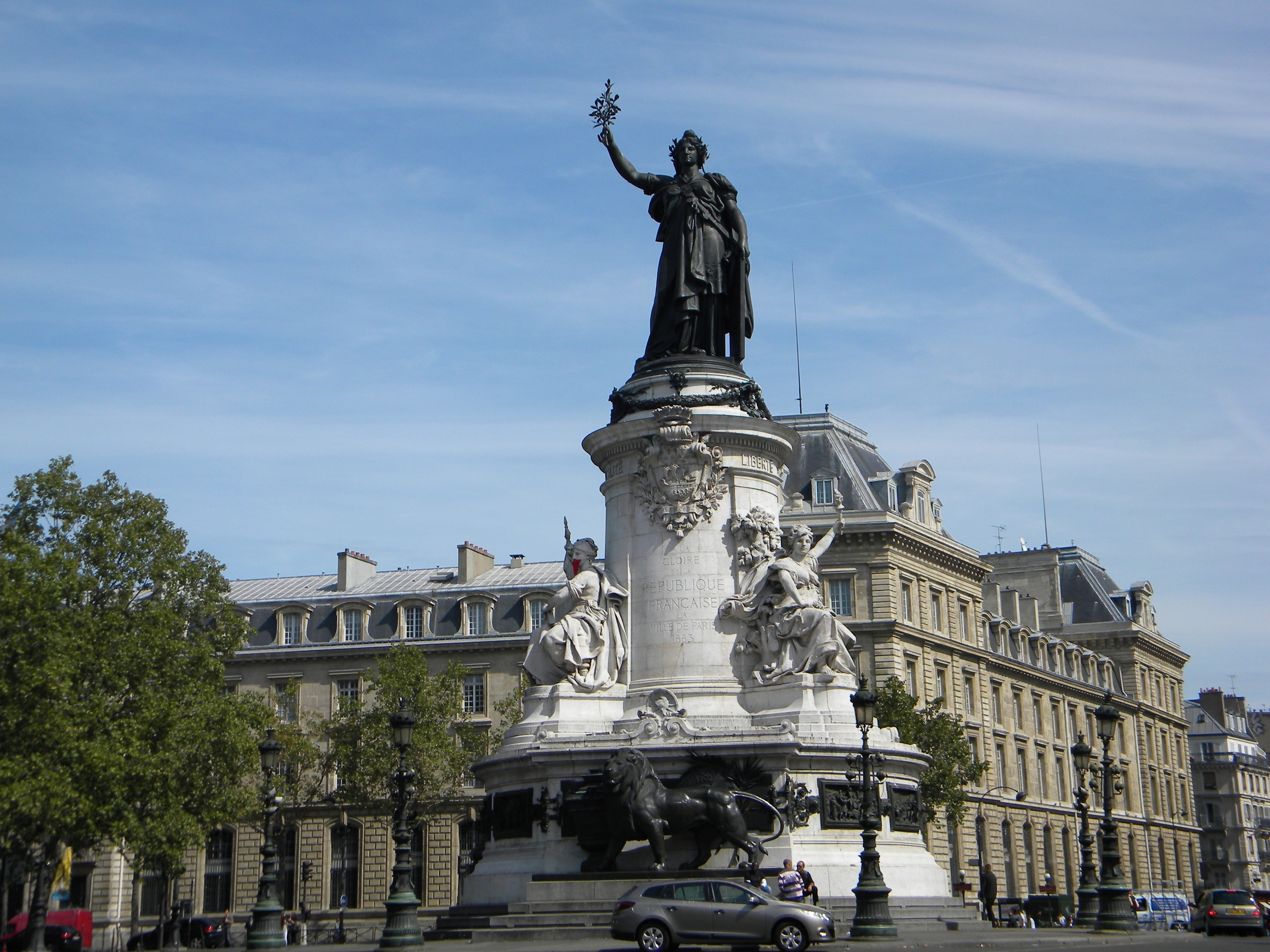 Place de la Republique, "Monument for Gloire Francaise", Sculpture made by: Leopold Morice for the statue and his brother Charles Morice for pedestal (2)